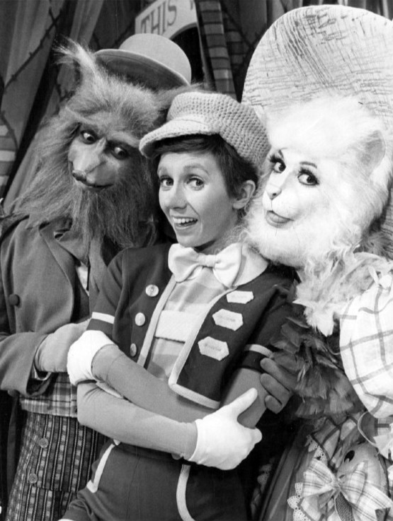 Publicity photo from the the television special Pinocchio (1976 TV production). Pictured L-R: Flip Wilson (Fox), Sandy Duncan (Pinocchio), Liz Torres (Cat).